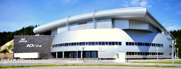 Arena Ugra